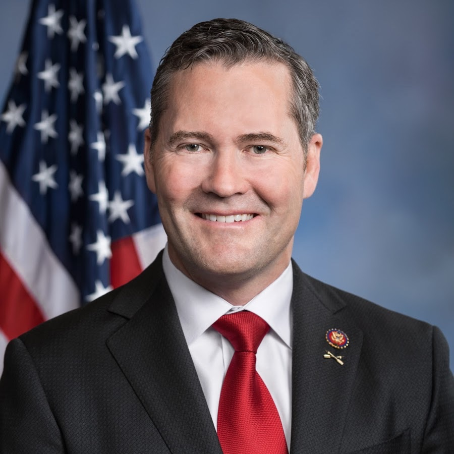 The official portrait of Rep. Michael Waltz (R-FL)